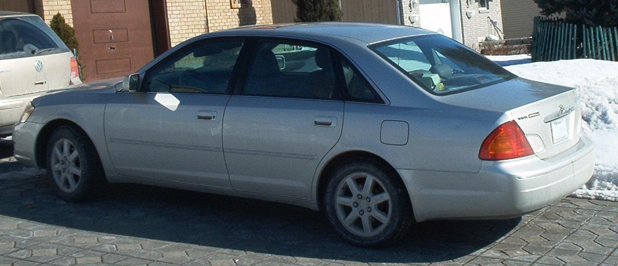 2000–2002 Toyota Avalon. Photographed in Canada.